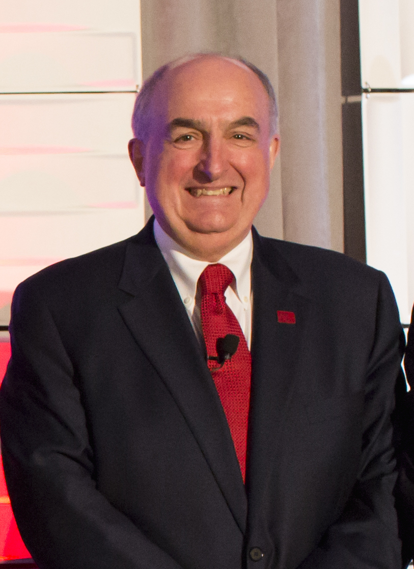 Former Indiana Lt. Gov. Eric Holcomb, left, Radius Indiana President/CEO Becky Skillman, Crane Naval Base Commander Capt. Jeffrey "JT" Elder, Inside INdiana Business Creator and Host Gerry Dick, Indiana University President Michael A. McRobbie and U.S. Sen. Joe Donnelly pose for a group photo before an event celebrating grants given to the Southwest Central Indiana region on Friday, March 4, 2016, in Odon, Indiana. Lilly Endowment Inc. has awarded three grants totaling $42 million to organizations in the region. The grants will support regional development initiatives in an 11-county area that encompasses Brown, Crawford, Daviess, Dubois, Greene, Lawrence, Martin, Monroe, Orange, Owen and Washington counties.